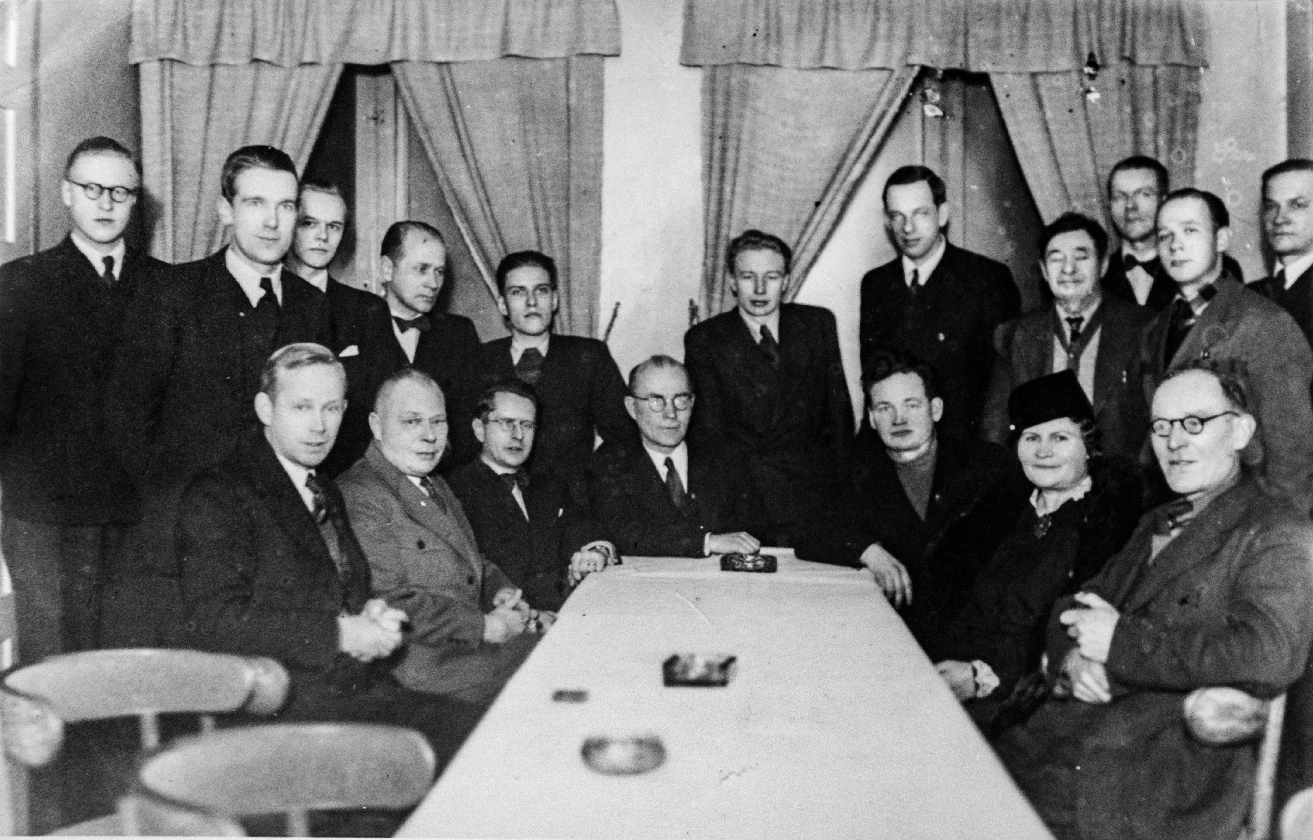 The elementary meeting of the Photoclub Saimaan Kameraseura in Lappeenranta on January 28th 1946